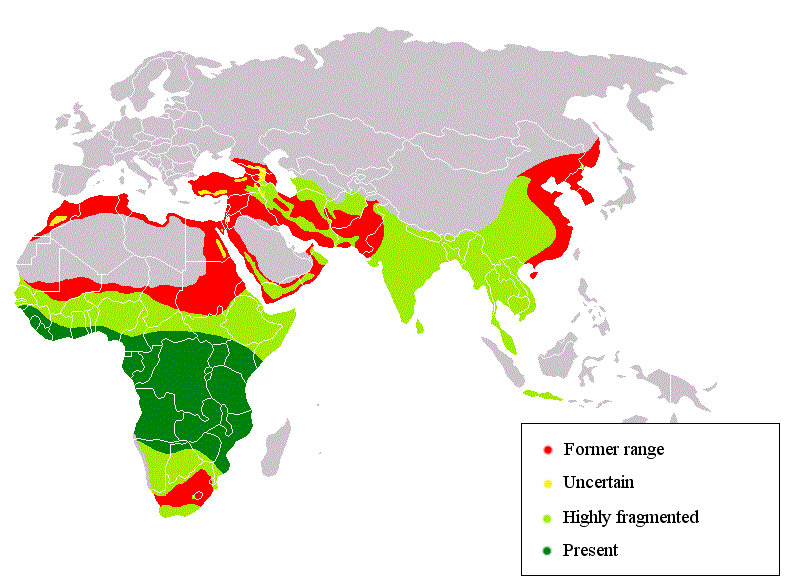 The distribution of the Leopard a map